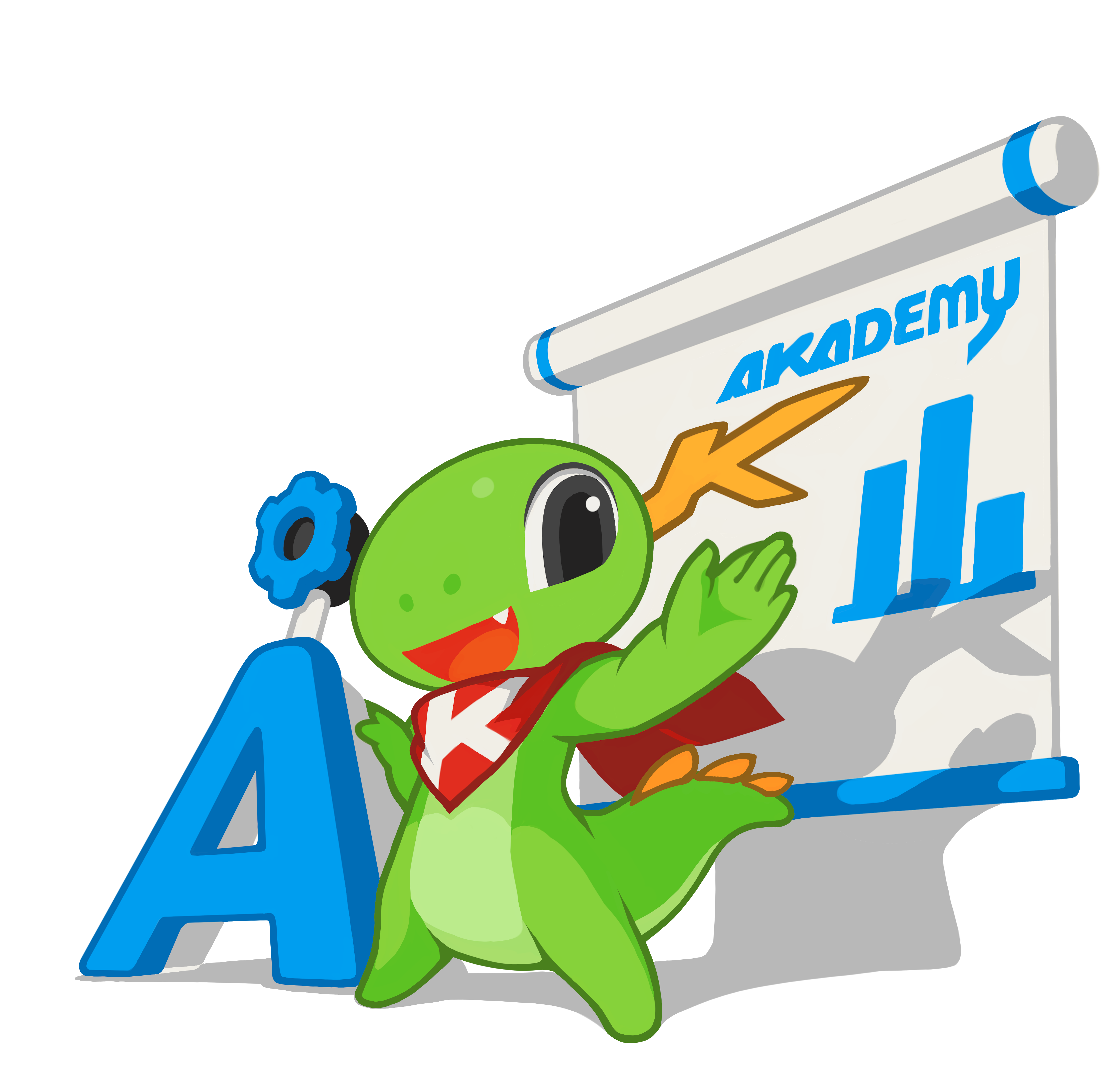 KDE mascot Konqi for KDE event Akademy.